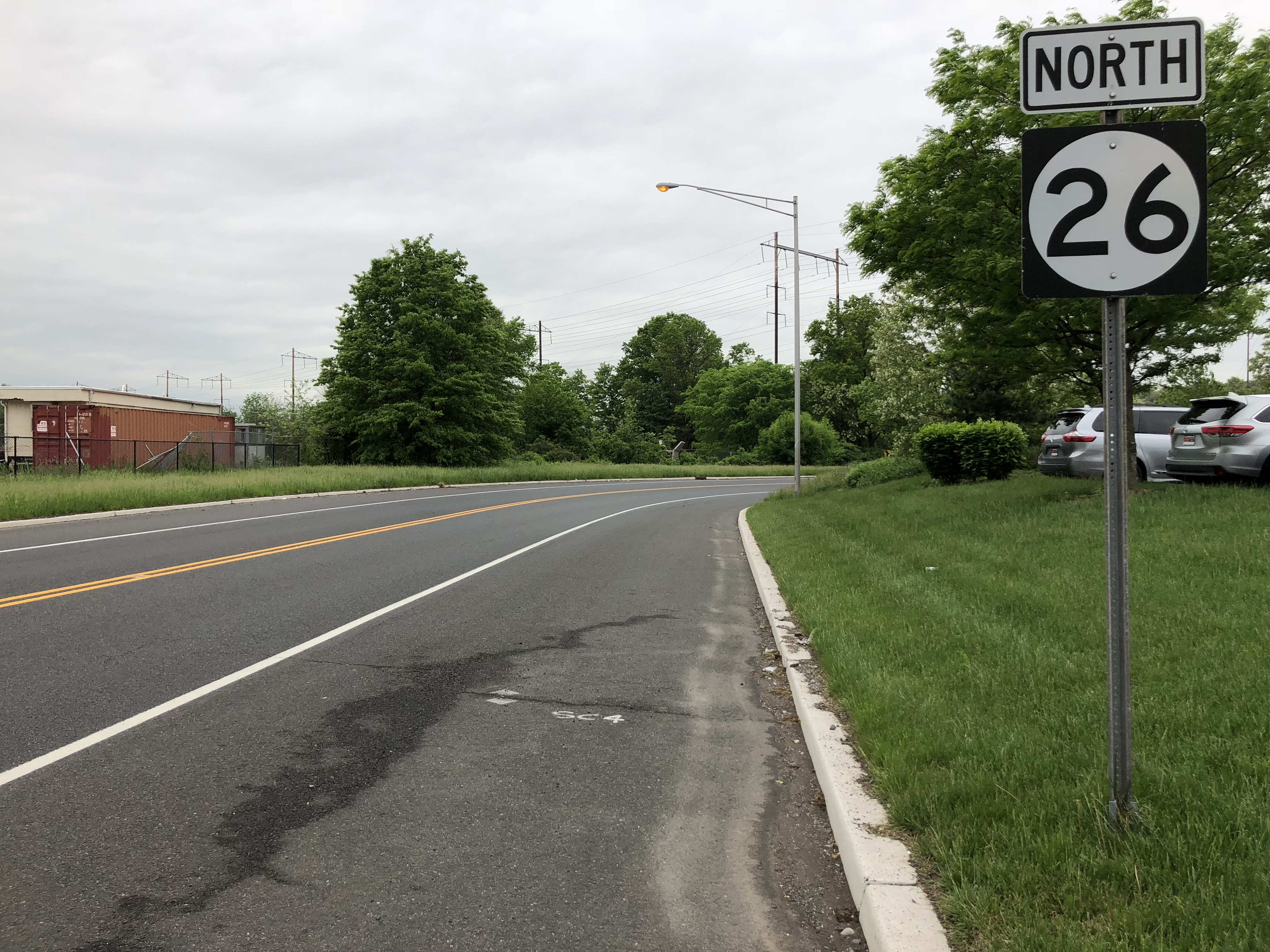 View north along New Jersey State Route 26 (Livingston Avenue) just north of Boice Drive in North Brunswick Township, Middlesex County, New Jersey